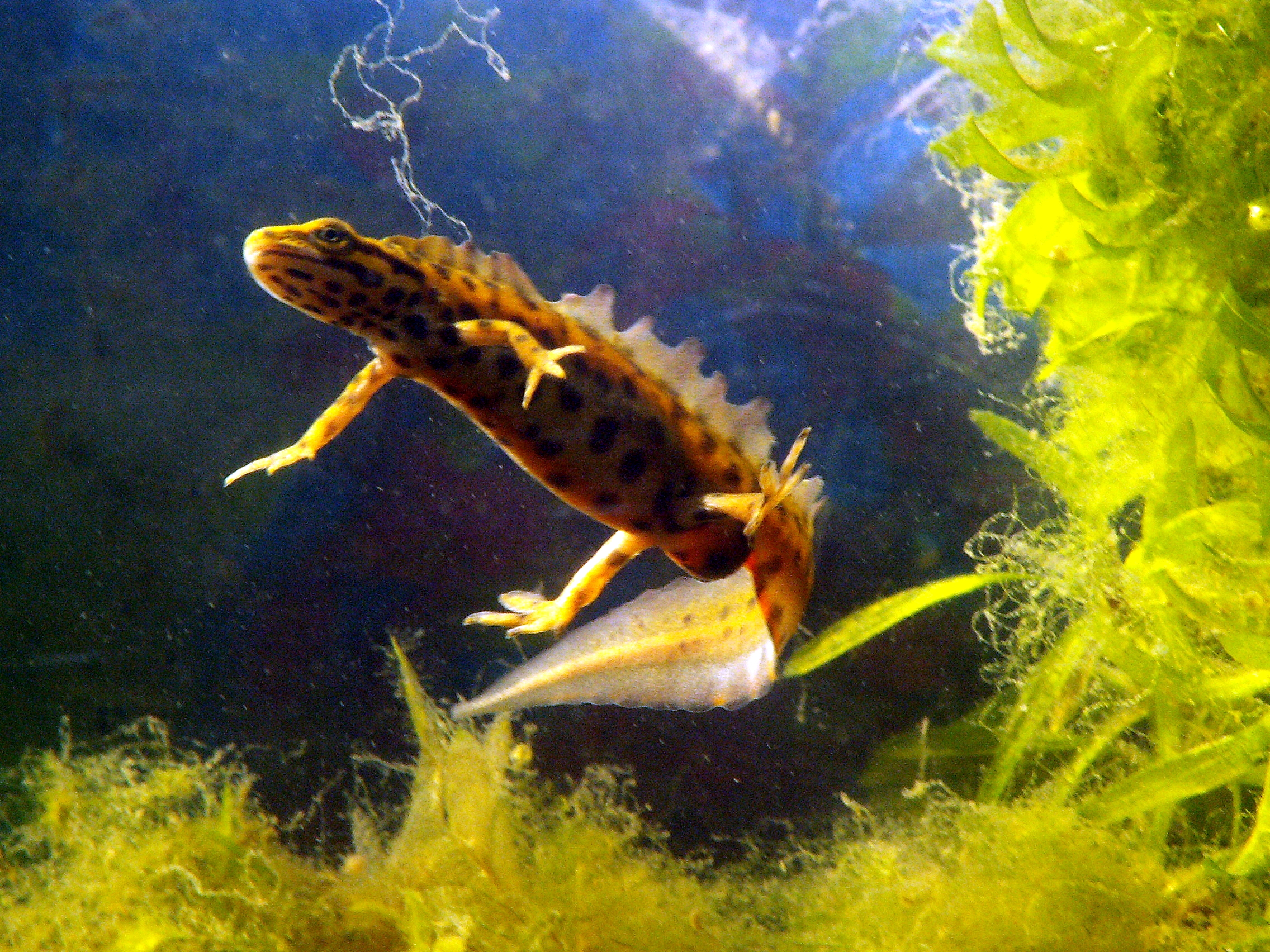 Male Smooth Newt (Lissotriton vulgaris aka Triturus vulgaris) during breeding season the Netherlands